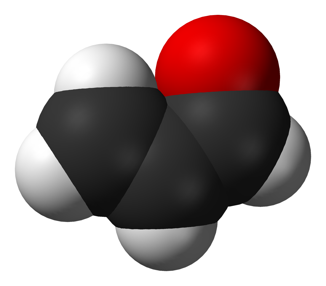 Space-filling model of the acrolein molecule